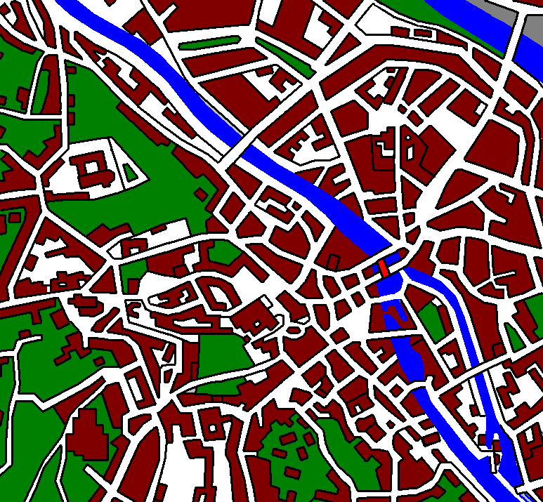 Locator map of the old city hall in the German town of Bamberg